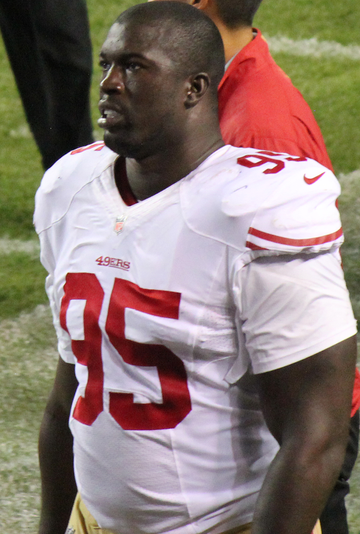 Cornellius Carradine, a player on the National Football League. He is also known as Tank Carradine.